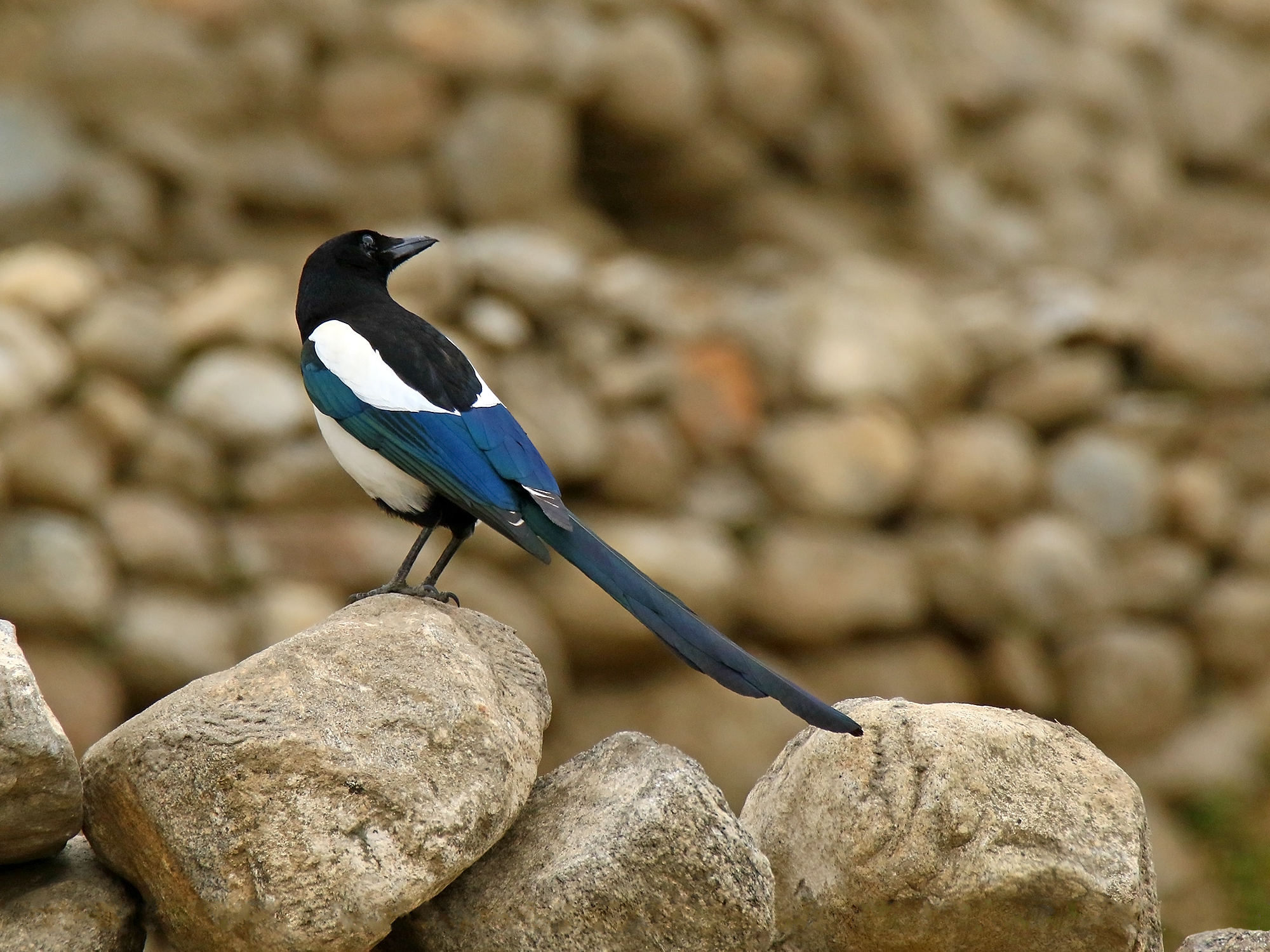 Eurasian Magpie (Pica pica bactriana) captured at Duikar, Hunza, Gilgit-Baltistan, Pakistan with Canon EOS 7D Mark II